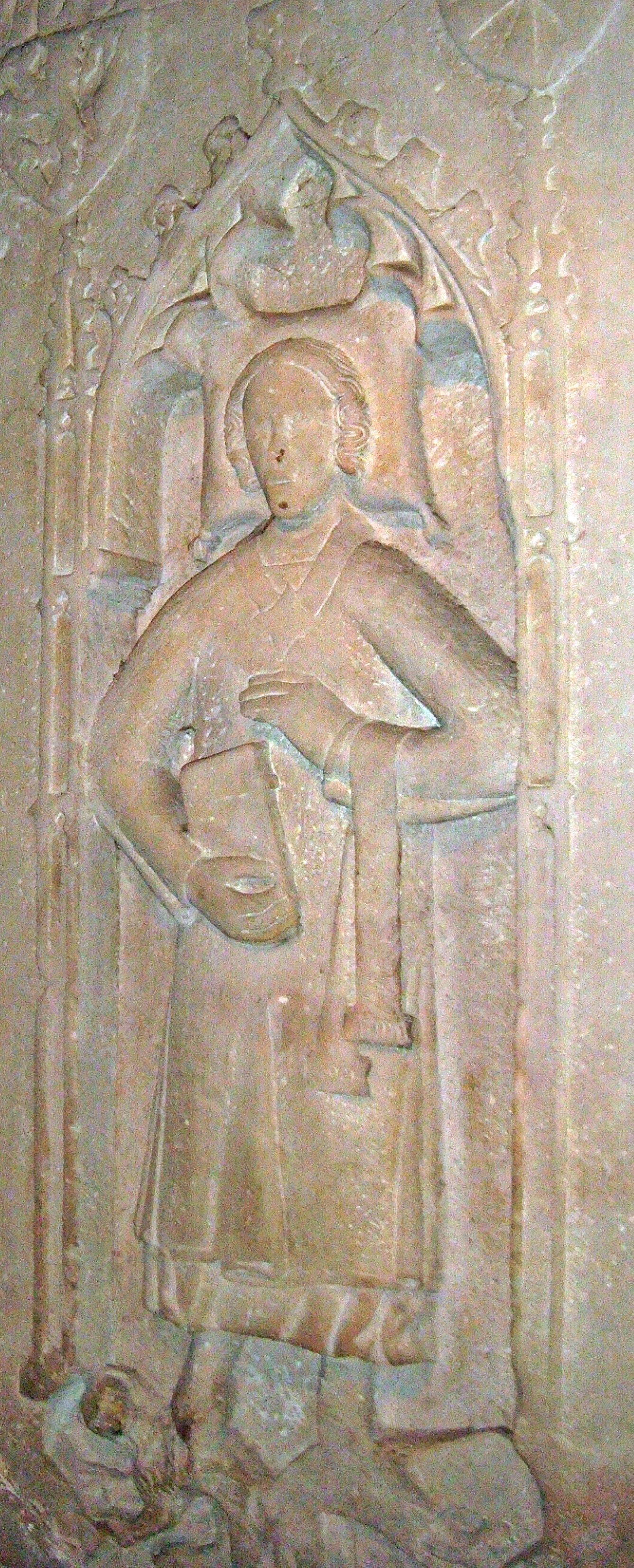 Grabstein des Wormser Domherrrn Reinbold Beyer von Boppard († 1364)